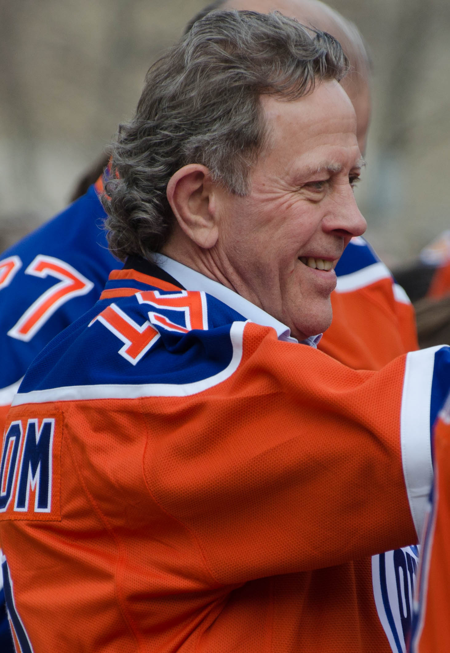 Willy Lindstrom in 2016. Please credit Connor Mah for use elsewhere.